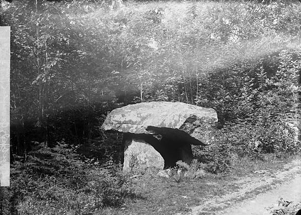 1 negative : glass, dry plate, b&w ; 12 x 16.5 cm.